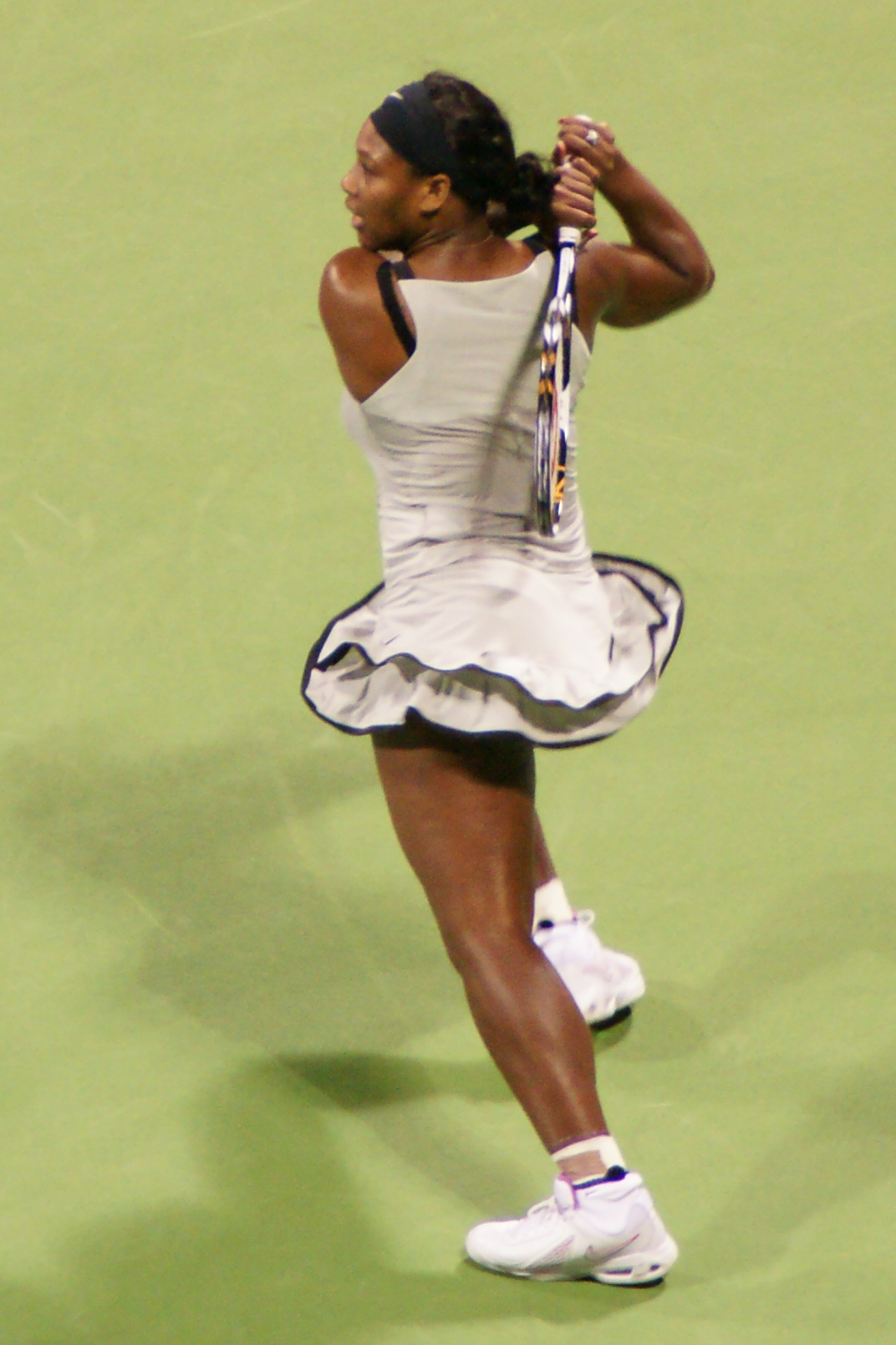 Serena Williams at the 2008 WTA Tour Championships